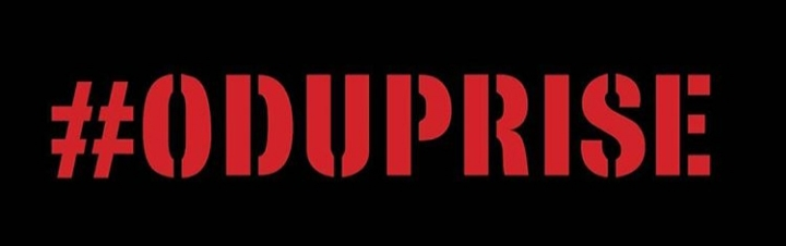 "#Oduprise" logo